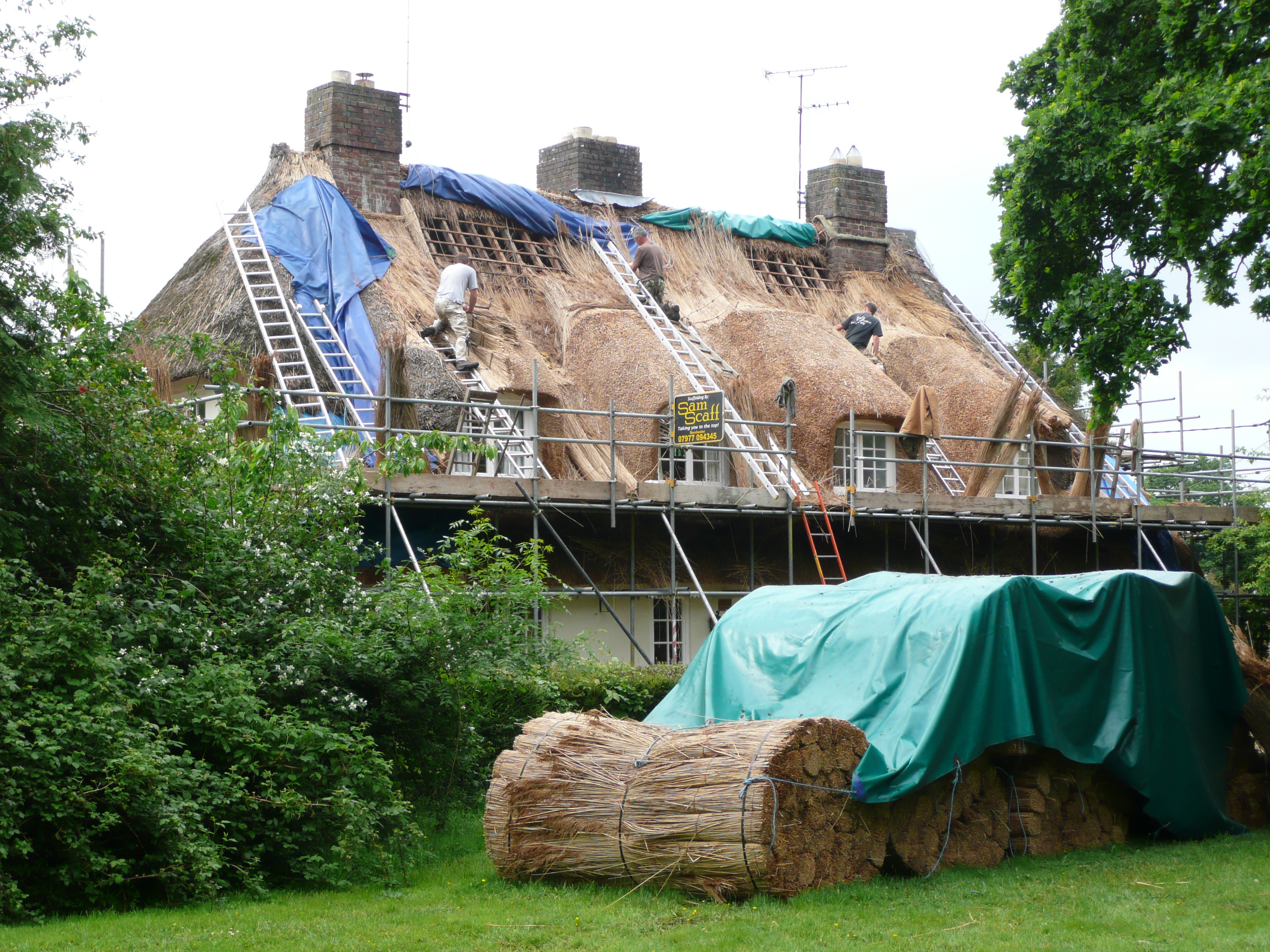 Briantspuddle in Dorset roof thatching at work